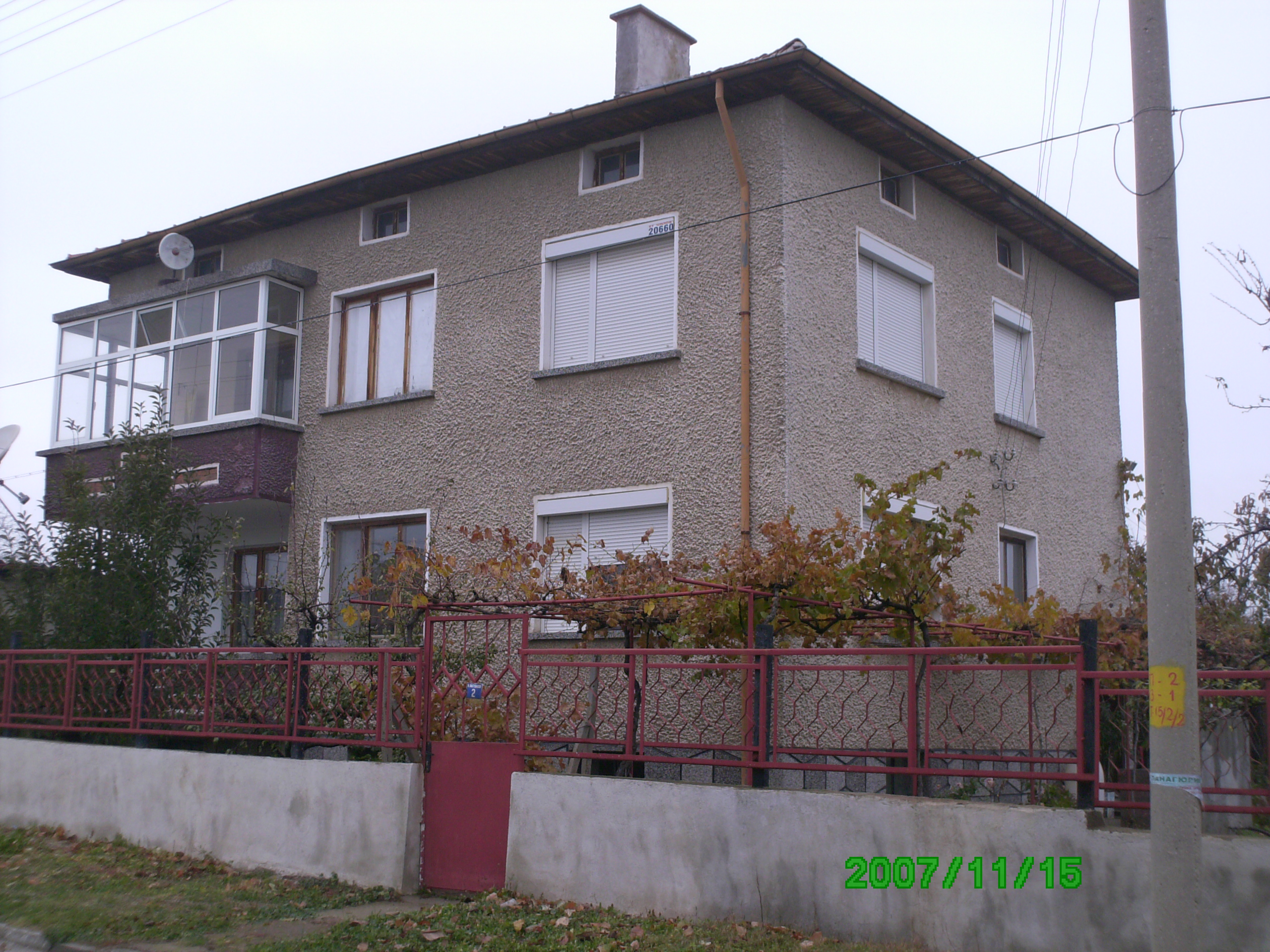 A house in village Levski, Pazardzhik District, Bulgaria